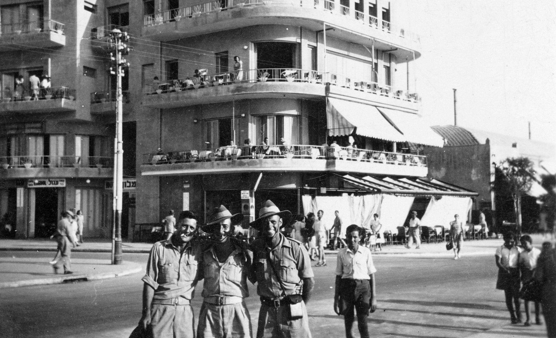 Tom's Australian Army mates in Tel Aviv